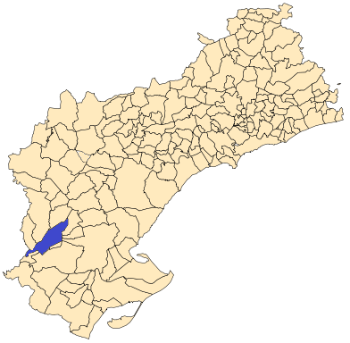 Alfara de Carles